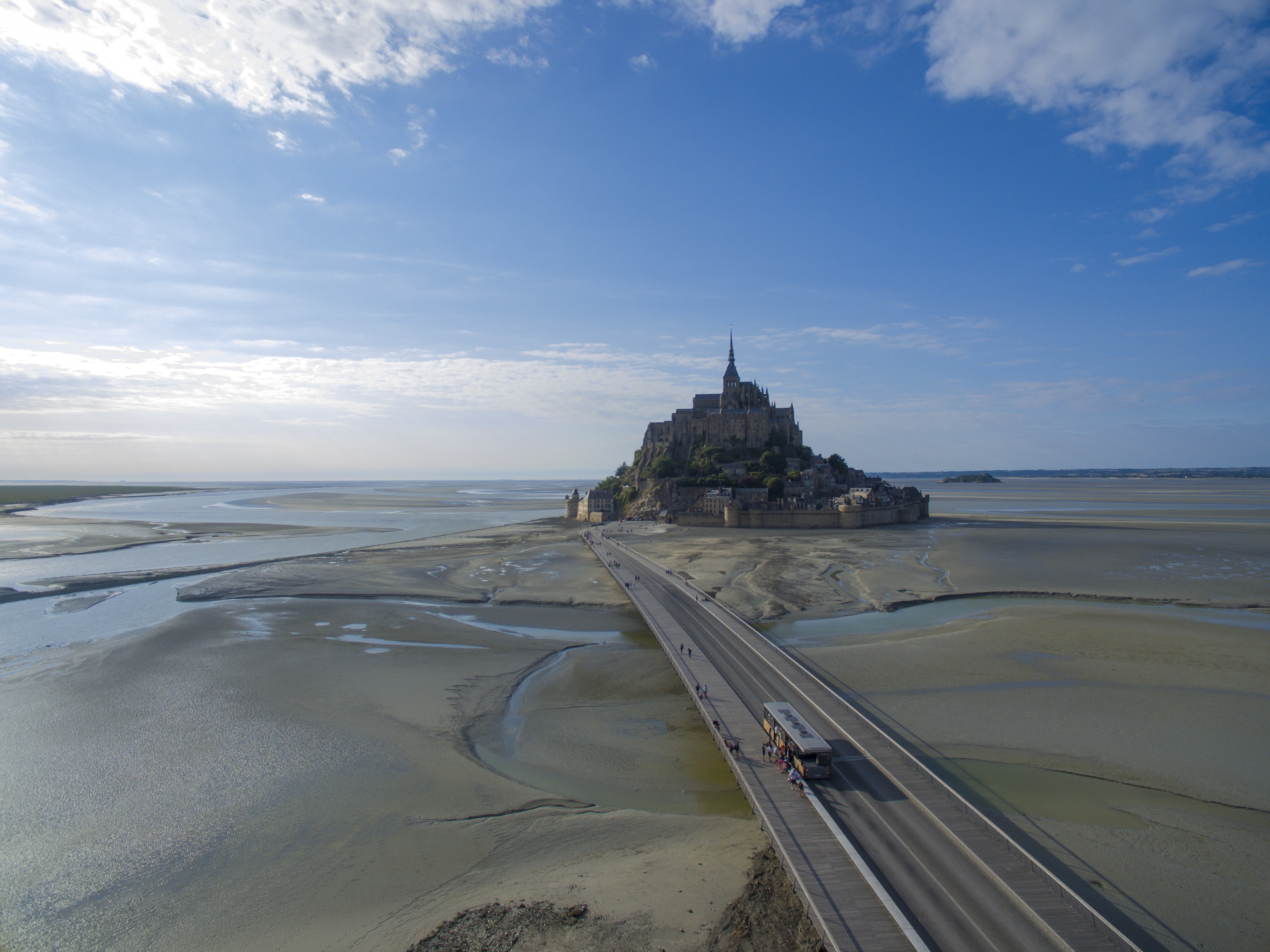 Mont-Saint-Michel Drone Photo 2018